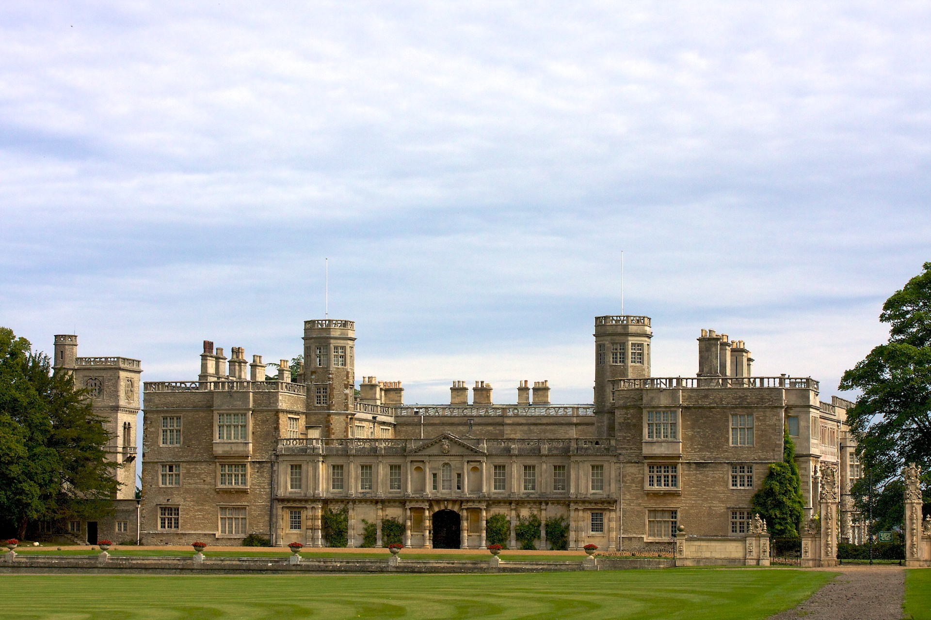 Castle Ashby House, Northamptonshire, England.